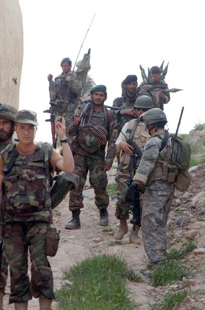 070414-A-6669H-001 SANGIN, Afghanistan - A U.S. Special Forces sergeant assigned to the Combined Joint Special Operations Task Force – Afghanistan issues guidance to a squad of soldiers assigned to the 1st Kandak, 209th Afghan National Army Corps, preparing to battle with Taliban fighters in the Sangin District area of Helmand Province April 14. (U.S. Army Photo by Spc. Keith D. Henning) [1]